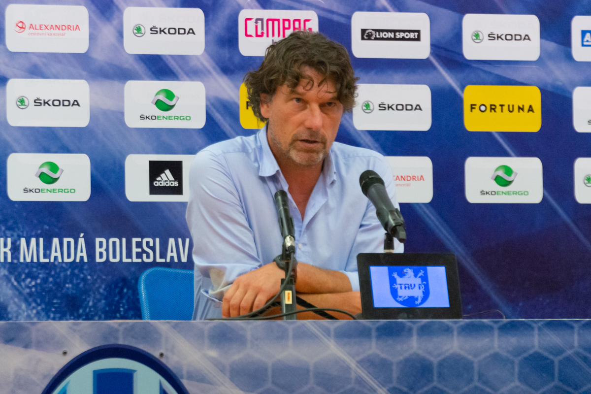 Daniel Šmejkal at press conference after the game vs FK Mladá Boleslav